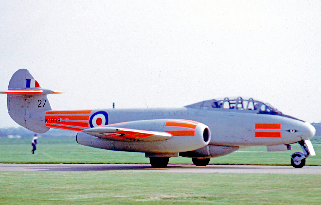 Gloster Meteor T.7 WA669 of the Central Flying School at Biggin Hill in 1969